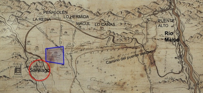 Monte Albernas territories in Santiago